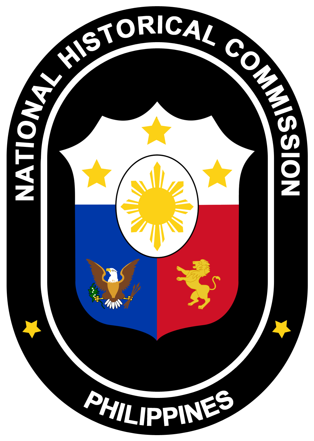 Seal of the National Historical Commission of the Philippines in Historical Markers in English Filipino: Sagisisag ng Pambansang Komisyong Pangkasaysayan sa mga Makasaysayang Pananda sa Ingles.